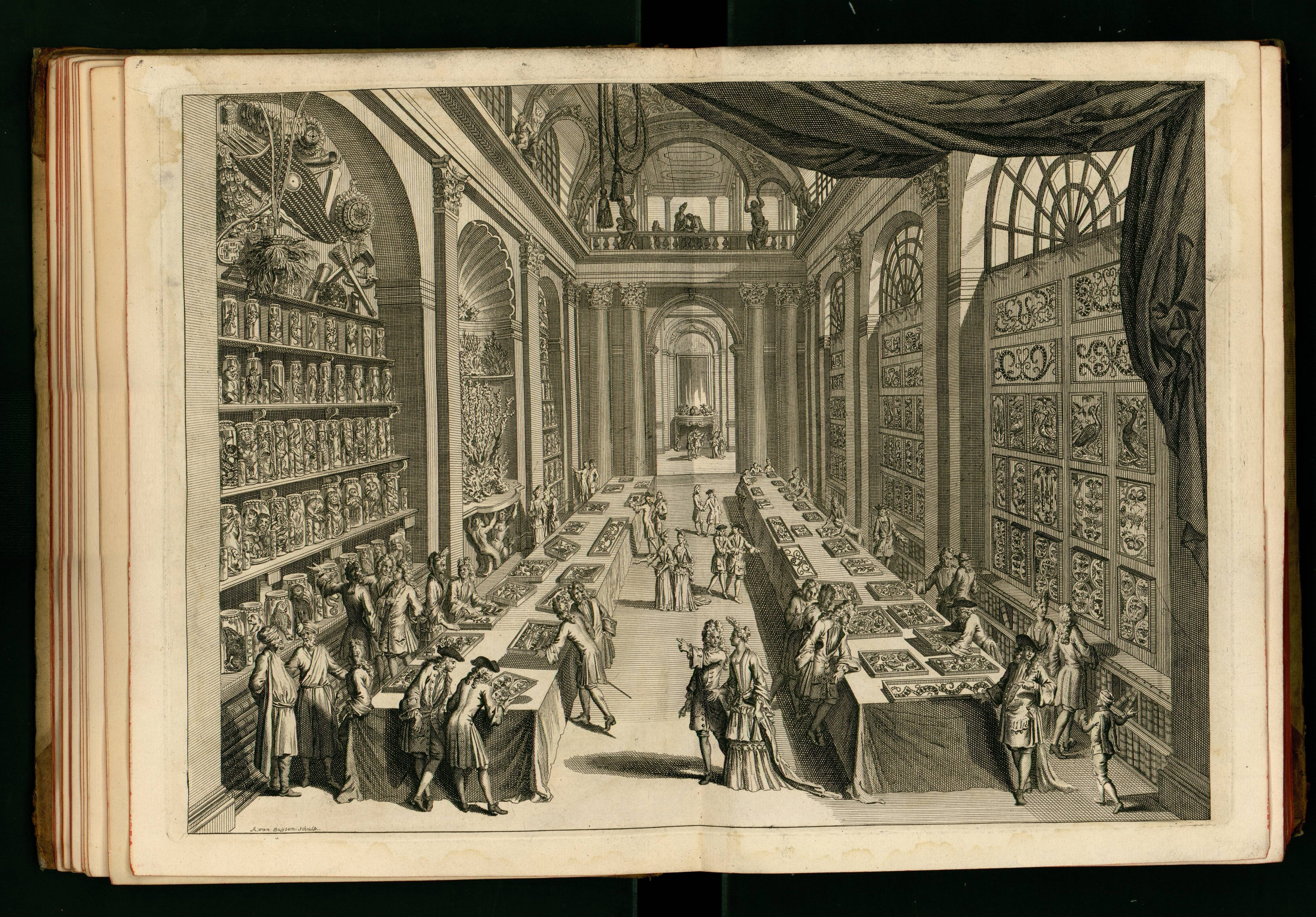 Illustration from the book, Wondertooneel der Nature - a Cabinet of Curiosities or Wunderkammern in Holland.